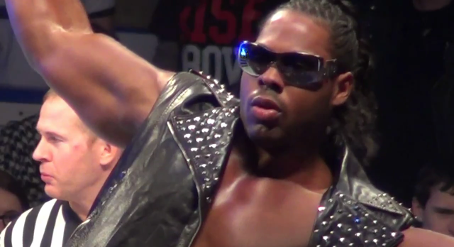 JTG at a WWE live event in Moscow, Russia at the Luzhniki Sports Arena on 4/11/2012, taken with a Nikon Coolpix P500